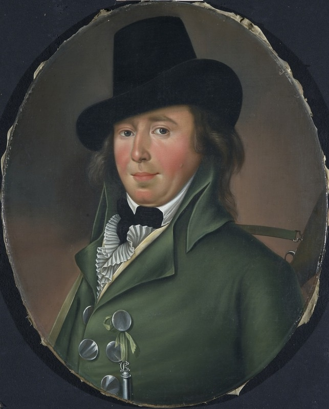 Portrait of estateowner Peter Collett (1757-1792).